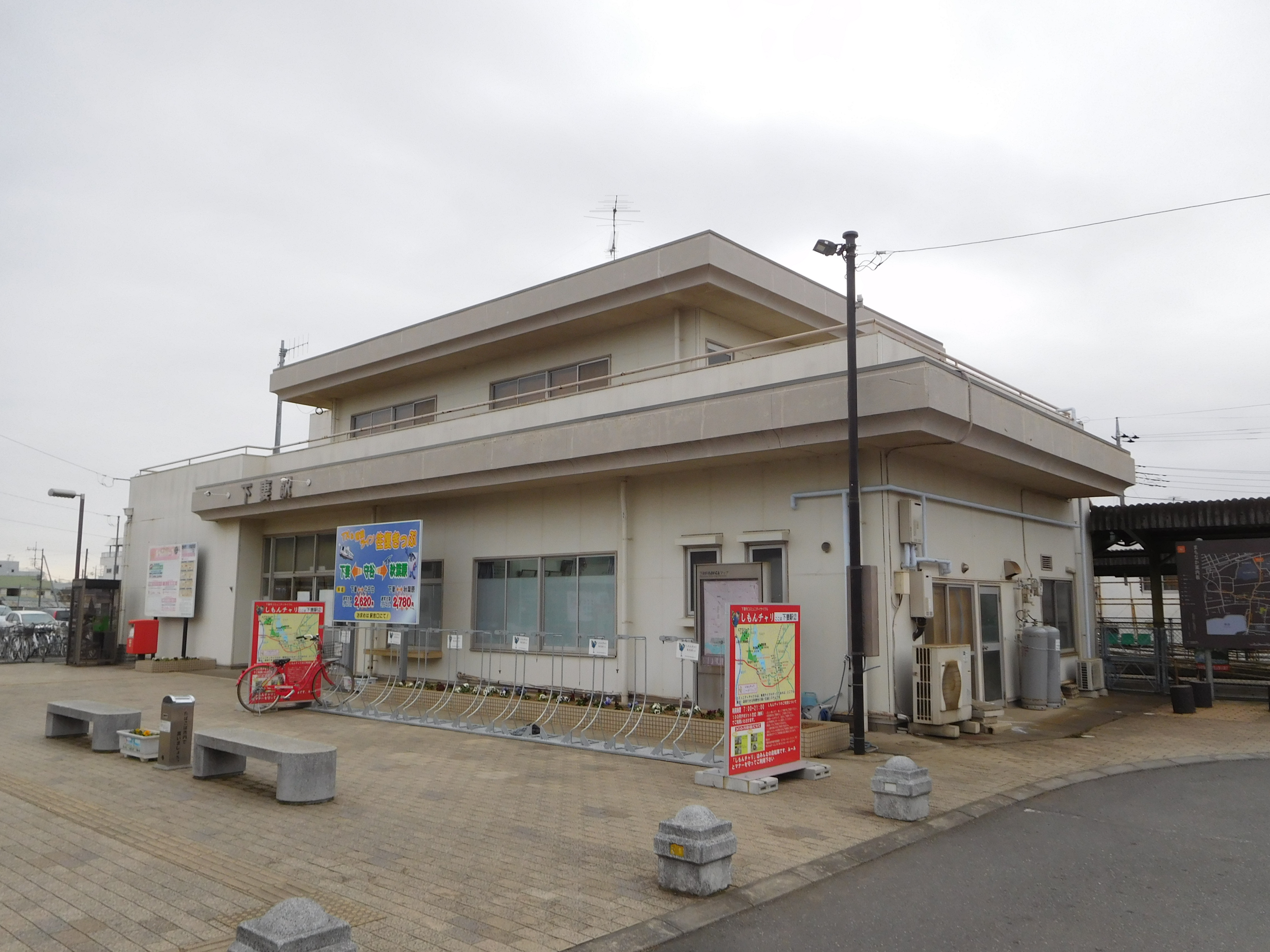 This is Shimotsuma Station in Shimotsuma, Ibaraki, Japan.